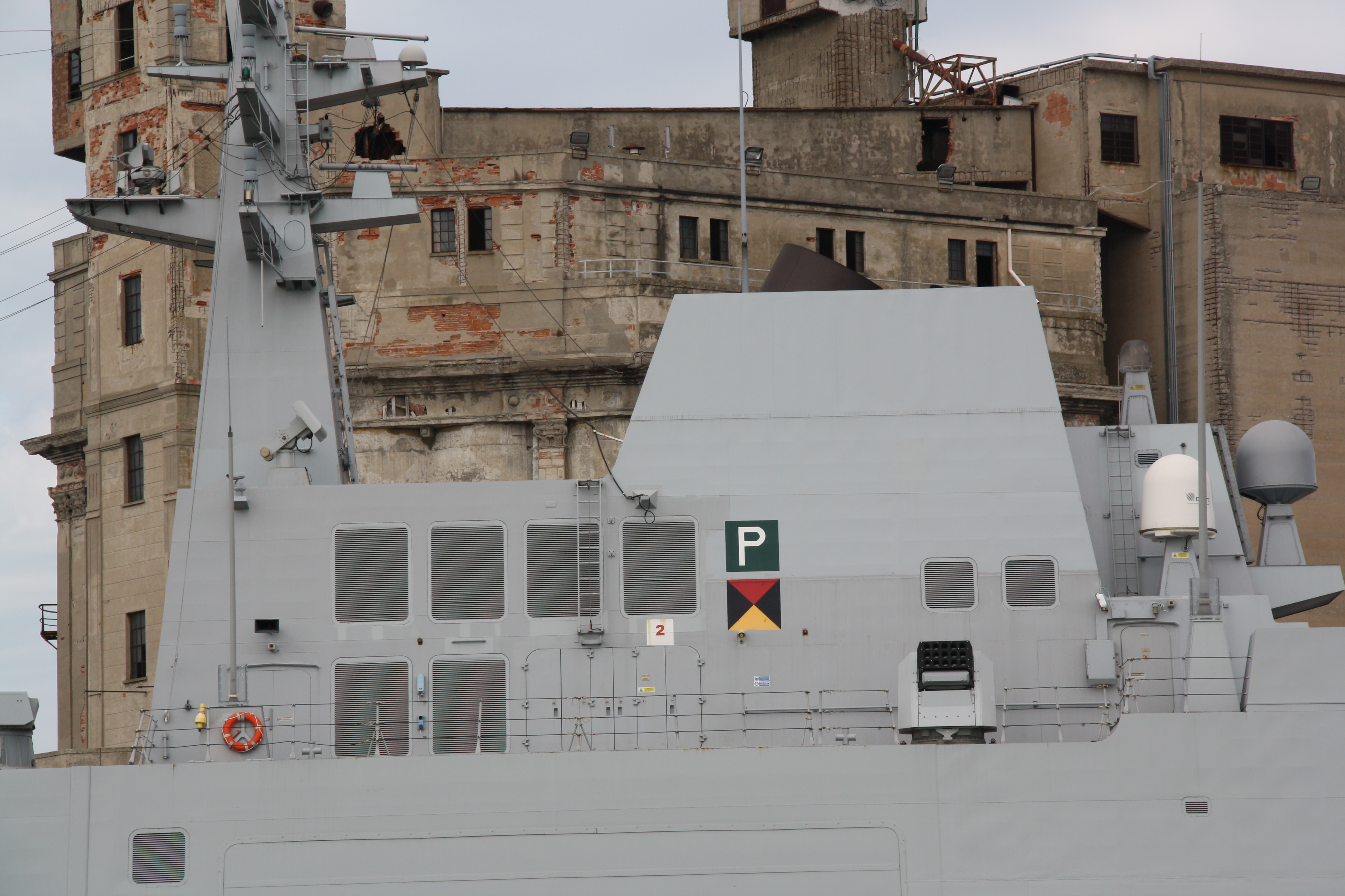 Italy Navy: Marina Militare Pennant number: F 591 Type: Frigate Class: Bergamini Keel laid: December 17, 2009 Launch date: March 31, 2012 Delivered date: December 19, 2013 Builder: Cantiere navale di Riva Trigoso Displacement: 6,700 t Length overall: 144 m Beam: 19.40 m Draft: 8.40 m Main engine: CODLAG system: 1 x Avio-General Electric LM2500 G4 plus gas turbine, 2 x Jeumont-Schneider electric engines 2,1 MW Electric power: 4 x Isotta Fraschini Motori V1716T2NE 2,190 kw Power: 32,000 kw Speed: 27 knots Range: 6,000 nm Crew: 167